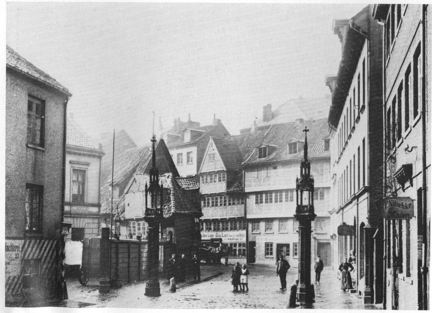 View from the west (from Lange Strasse, St.Pauli) to Schlachterbudentor, one of the border crossings between Hamburg and Holsatian/Prussian Altona, marked by one cast iron post on each side of the carriageway. Beyond the border the name of the street is Schlachterbuden.